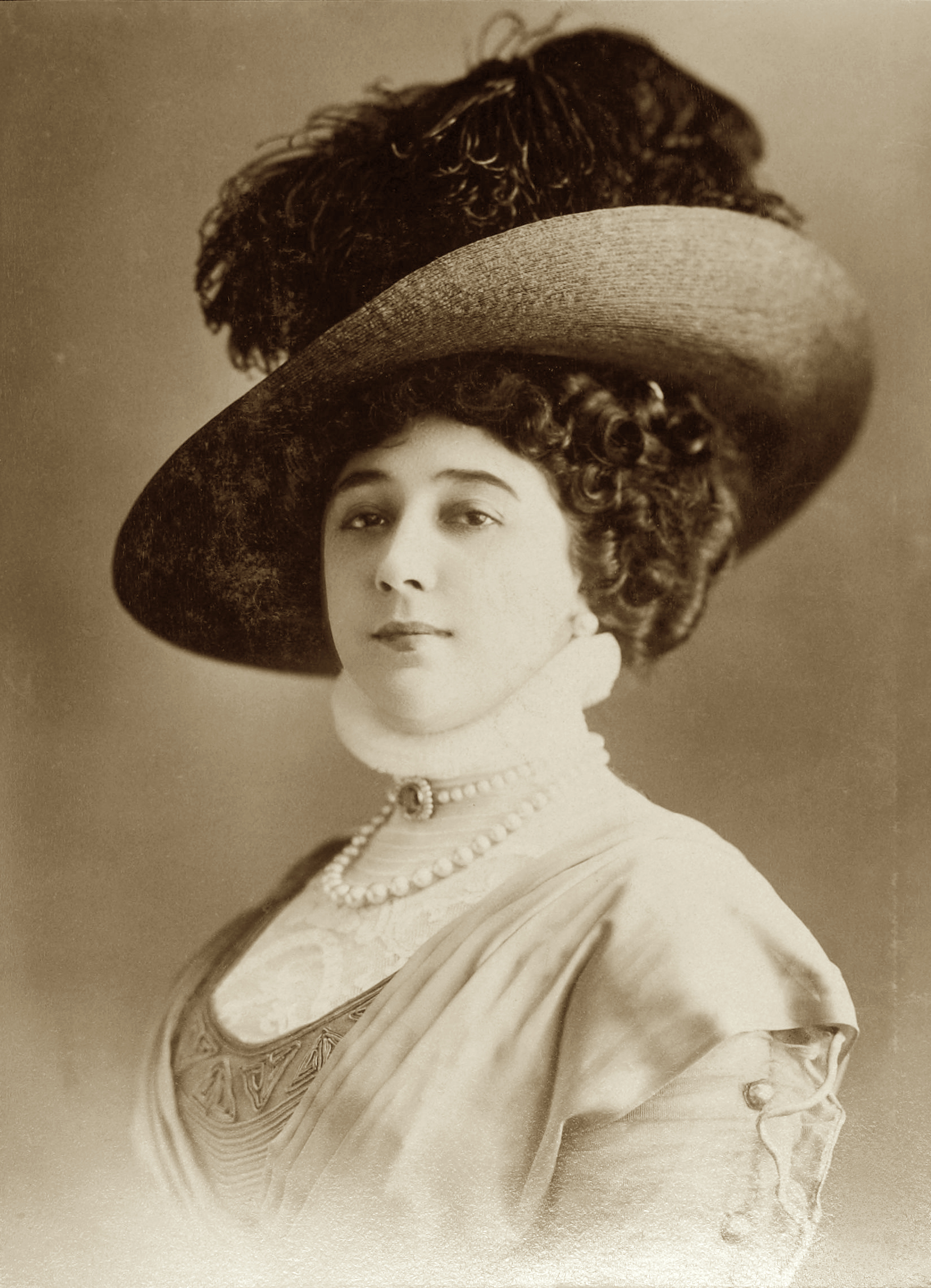 La Belle Otero, by Jean Reutlinger, sepia.